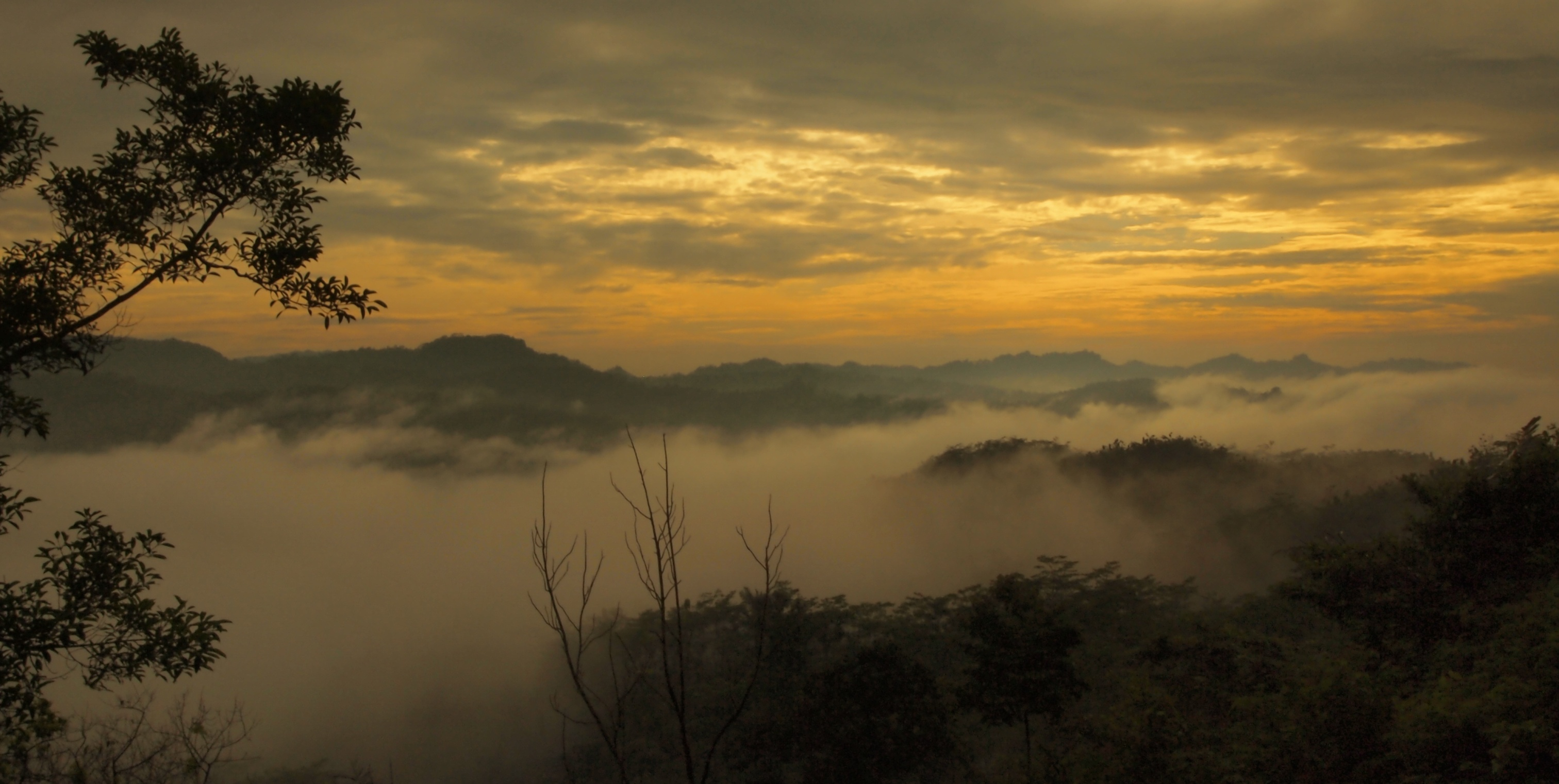 A picture taken from Cibalong Subdistrict of Tasikmalaya Regency, West Java. Showing hilly terain of Tasikmalaya Regency.